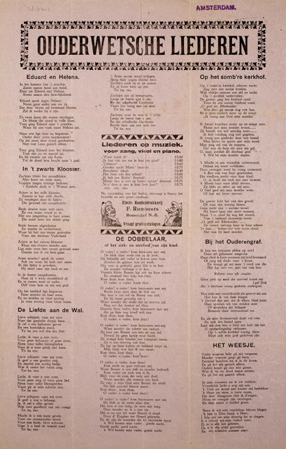 Song sheet (music sheet) 'Old fashioned songs' with the folk songs 'In het lommer van 't prieeltje'; 'Zachtjes klinkt het avondklokje' / 'Achter in het stille klooster'; 'Lieve schipper vaar mij over'; 'O vader kom huiswaarts met mij'; 'Op 't sombere kerkhof zekere nacht'; 'Ik ken een eenzaam plekje op aard' en 'Vader waarom hebt gij mij vergeten'. Not dated; printed around 1900. Source: Lbl MI Wouters 342, Wouters/Moormann, Meertens Instituut, Amsterdam. Online source: Het Geheugen van Nederland (